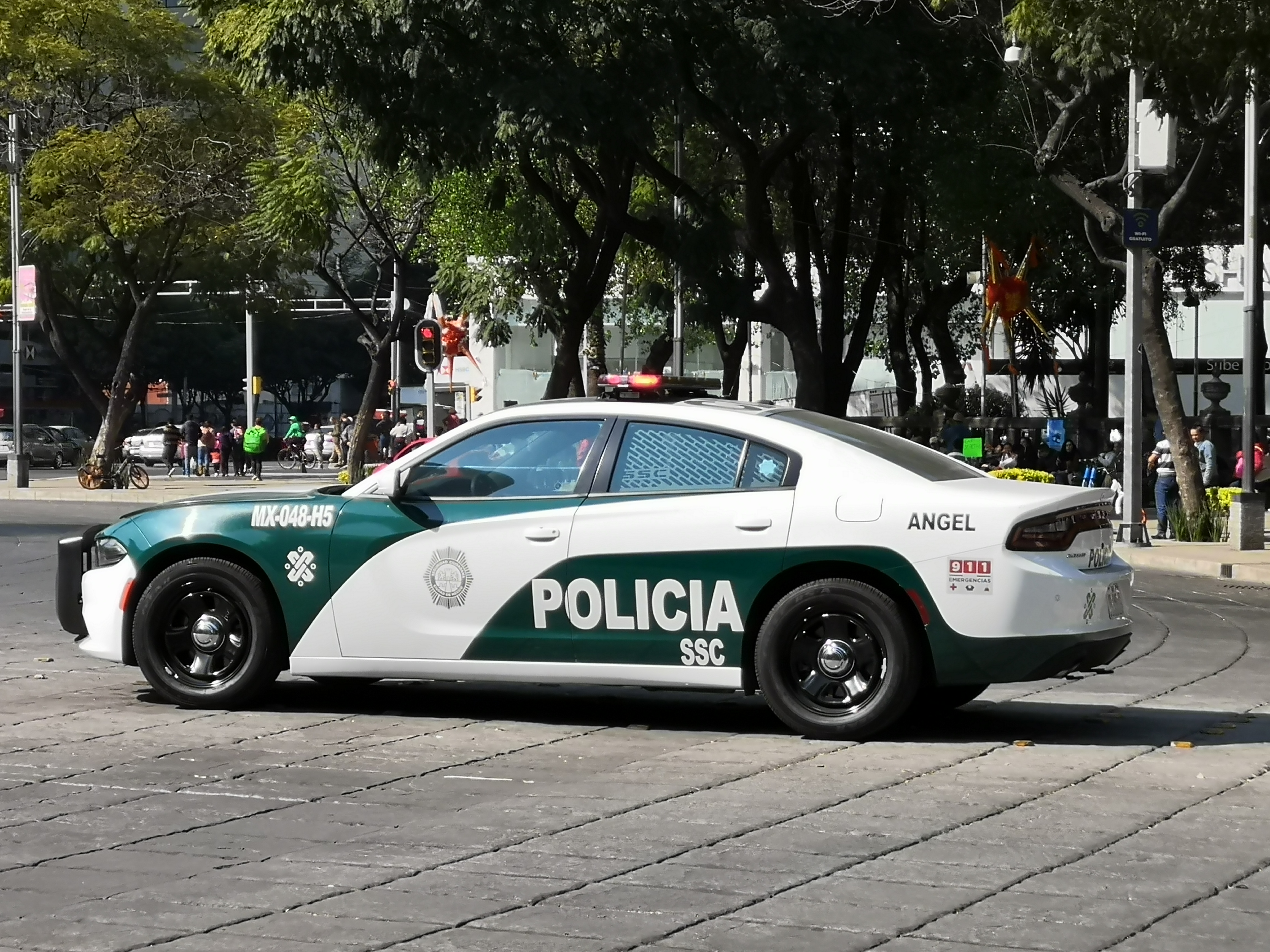 A 2019 Dodge Charger of the Mexico City Police with its new paintjob during the Claudia Sheinbaum's government (2018-2024), parked in front of the Independence's Angel Monument, Paseo de la Reforma avenue.